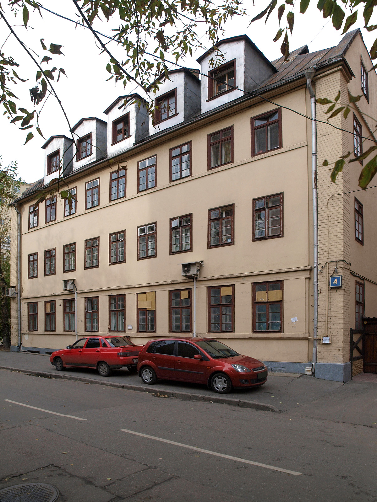 6th Rostovsky Lane, Moscow.